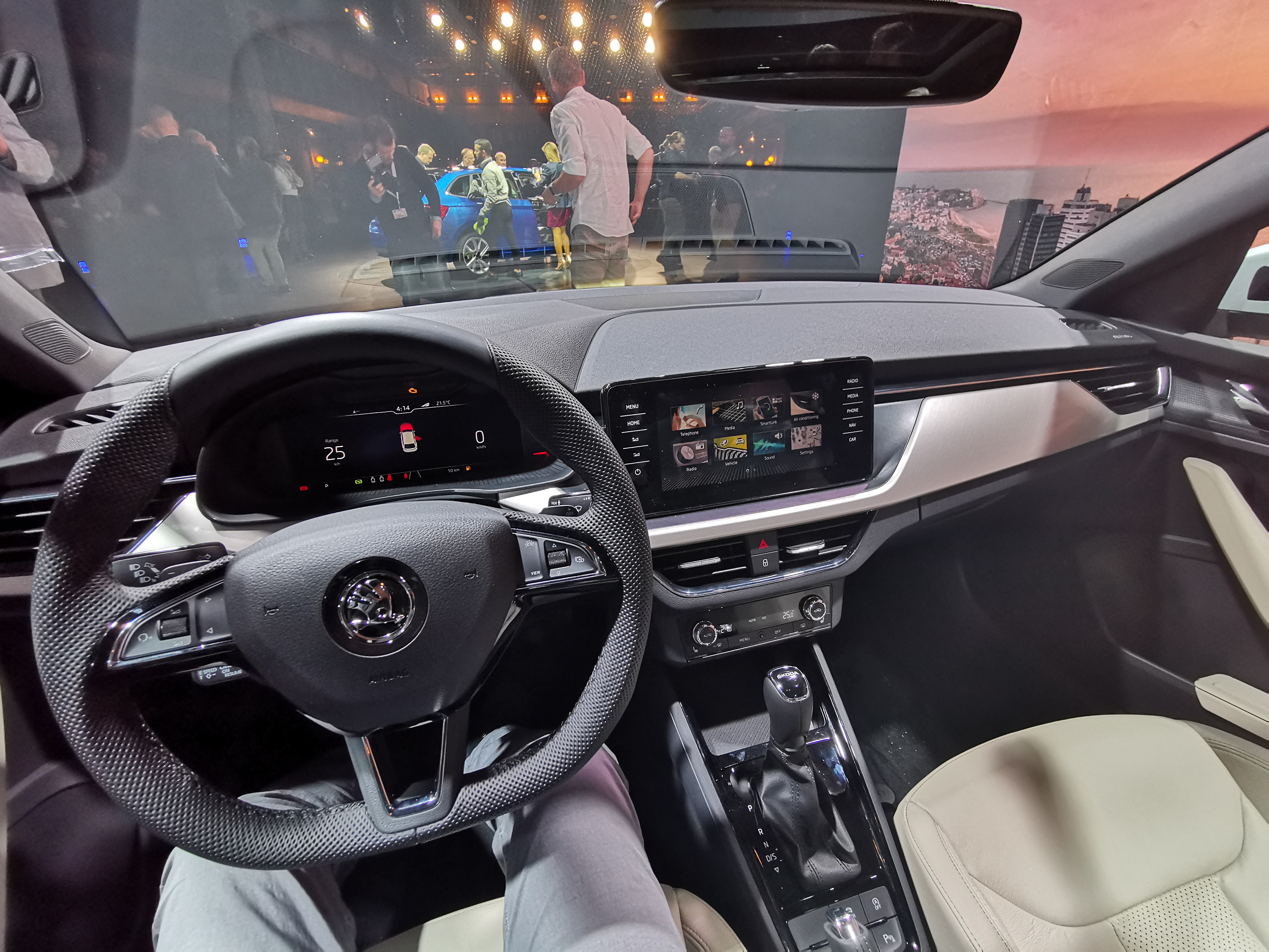 Škoda Scala during the presentation in Tel Aviv, 2018